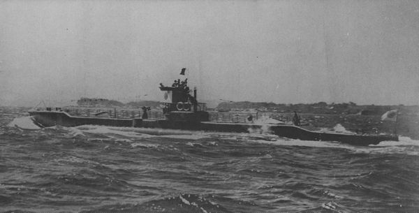 Imperial Japanese Army Type 3 submergence transport vehicle-I Yu 2001